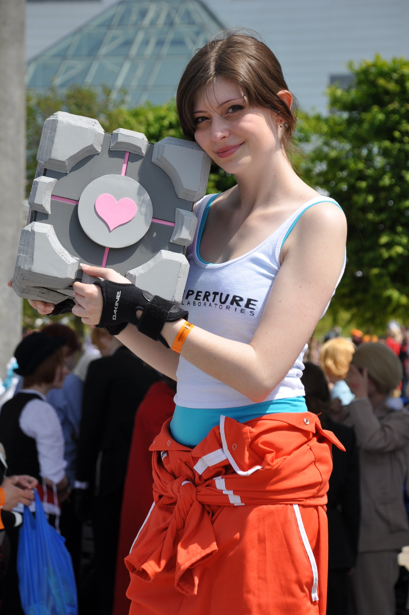 Cosplay at the Summer 2013 London MCM Expo at the ExCeL Exhibition Centre.